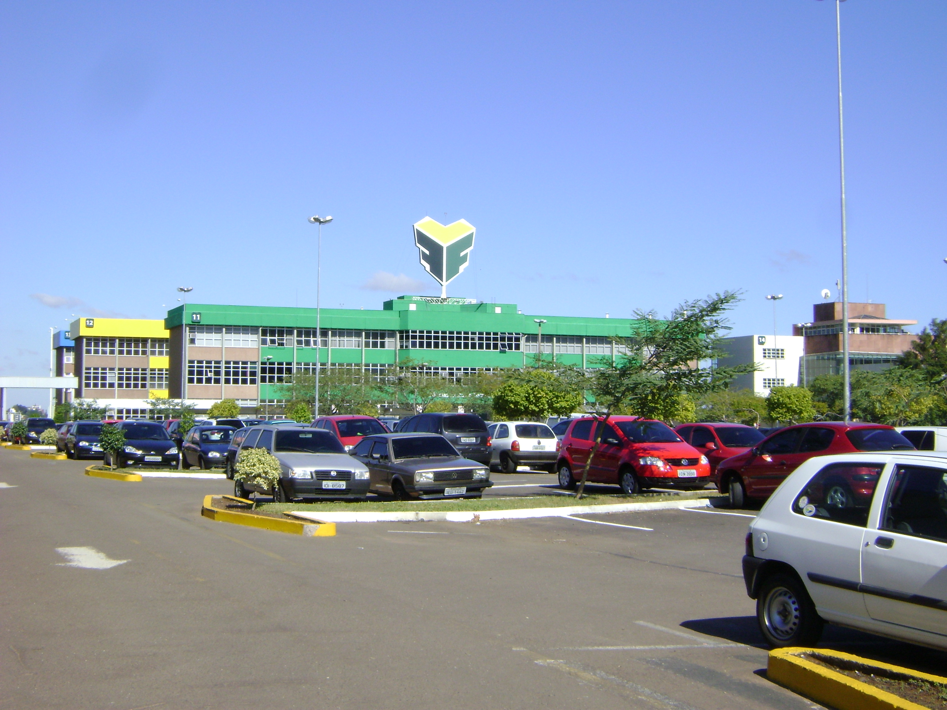 ICET - Feevale - Novo Hamburgo - Brasil